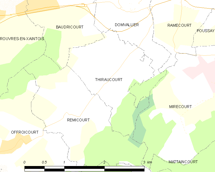 Map of French municipality Thiraucourt